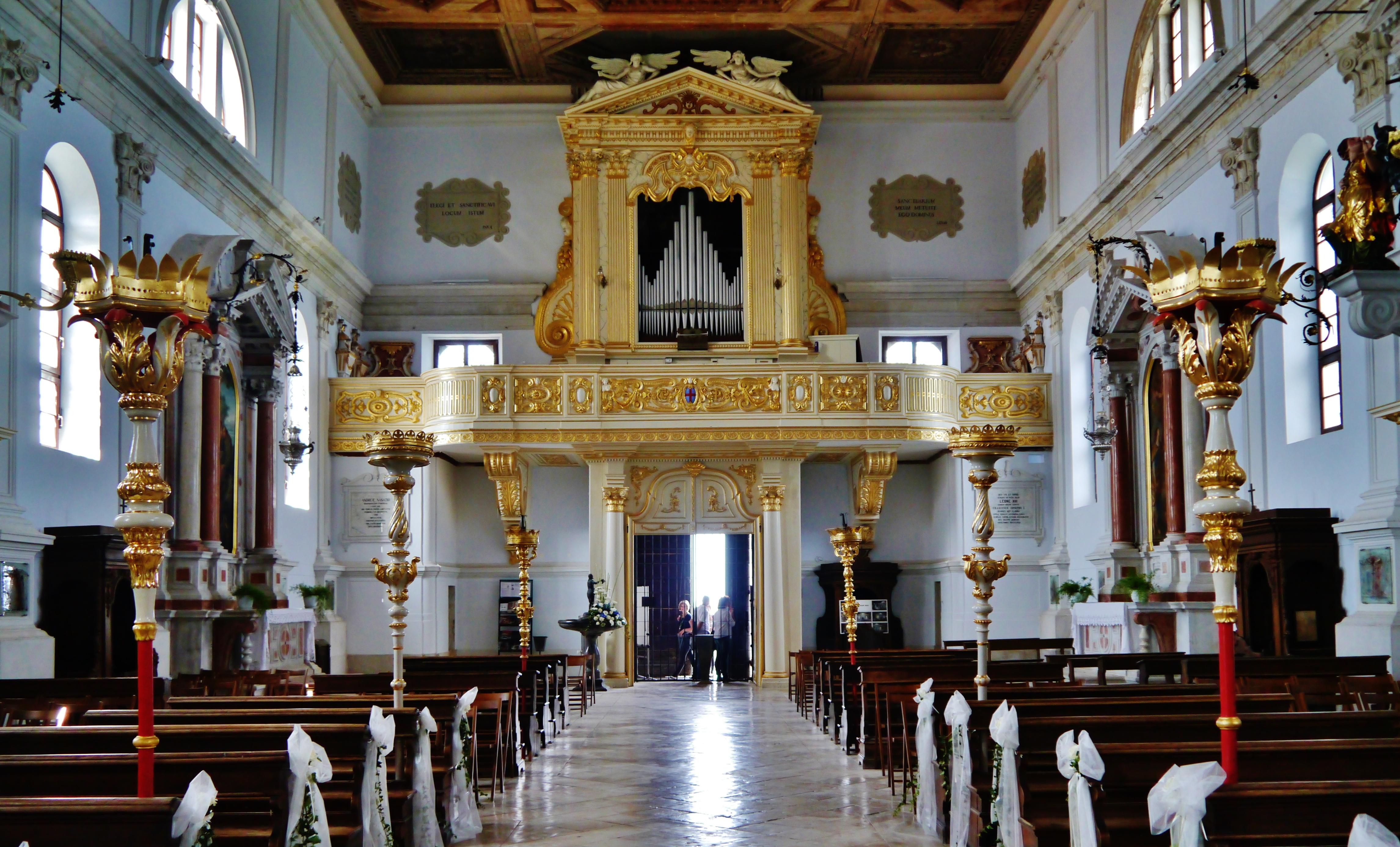 Nave of St. George, Piran, Slovenia